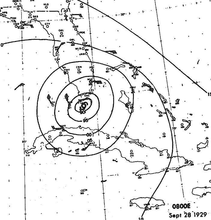 Surface weather analysis of the 1929 Bahamas hurricane moving through the Florida Keys on September 28, 1929.